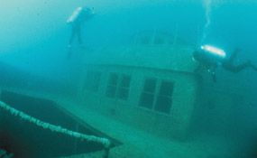 Diving the Chester Congdon, Isle Royale national Park.